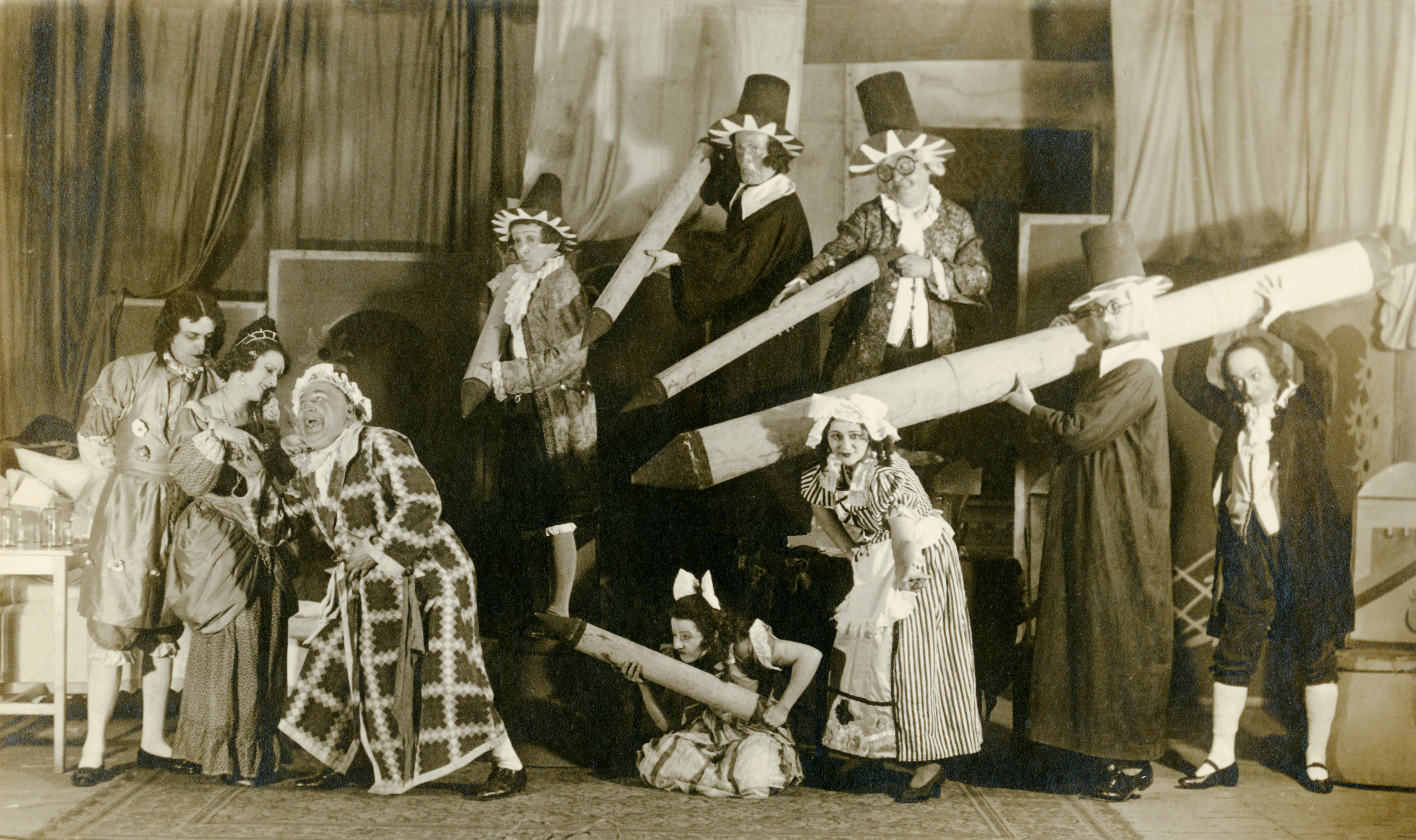 Scene from play:"The Imaginary Invalid" by Molière, Serbian National Theatre, Novi Sad, 1933 Srpski (latinica): Scena iz predstave: "Uobraženi bolesnik", Molijer, Srpsko narodno pozorište, Novi Sad, 1933. Српски (ћирилица): Сцена из представе: "Уображени болесник", Молијер, СНП, Нови Сад, 1933.